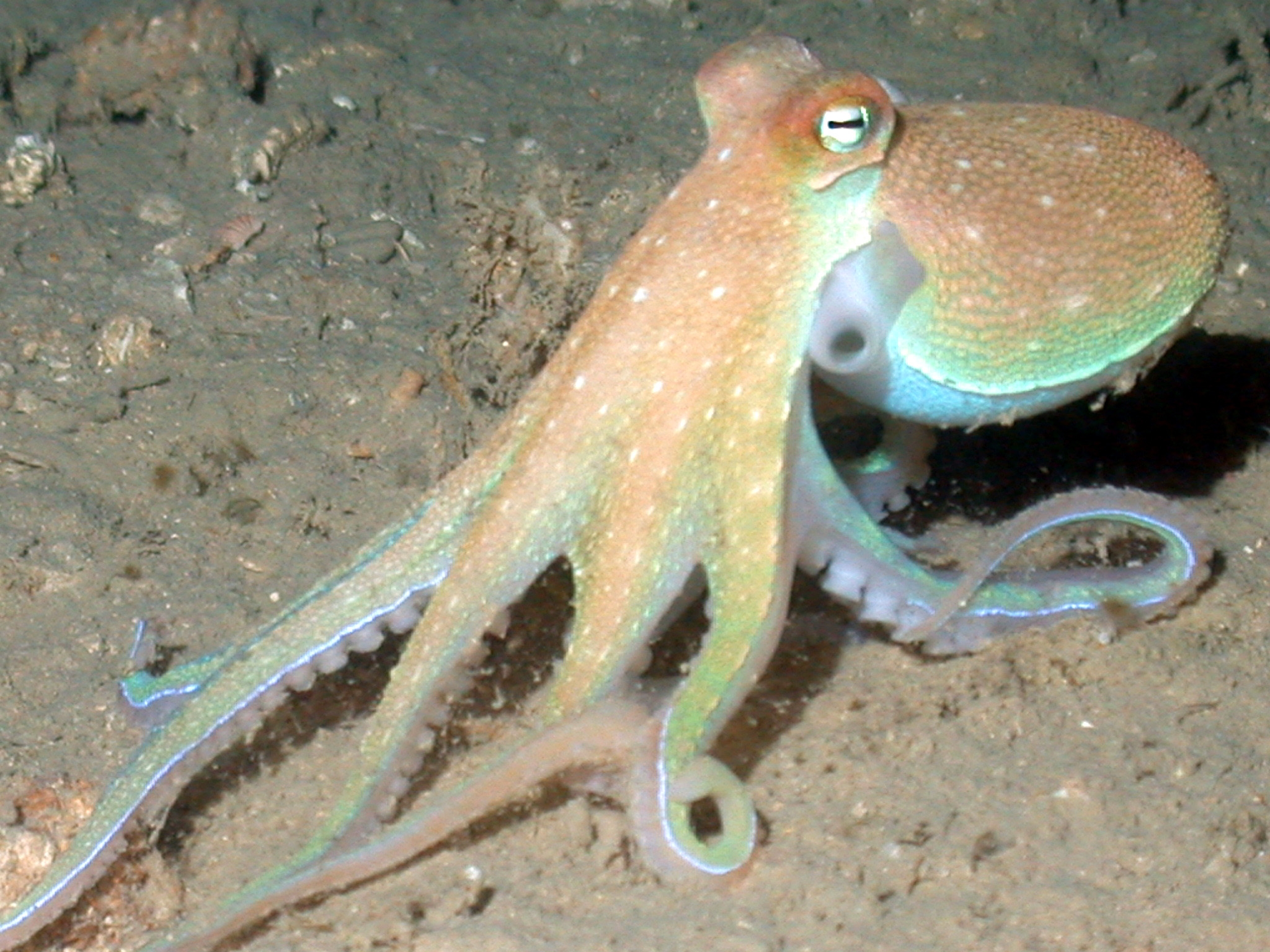 An octopus. Gulf of Mexico, West Bank, Flower Garden Banks NMS.